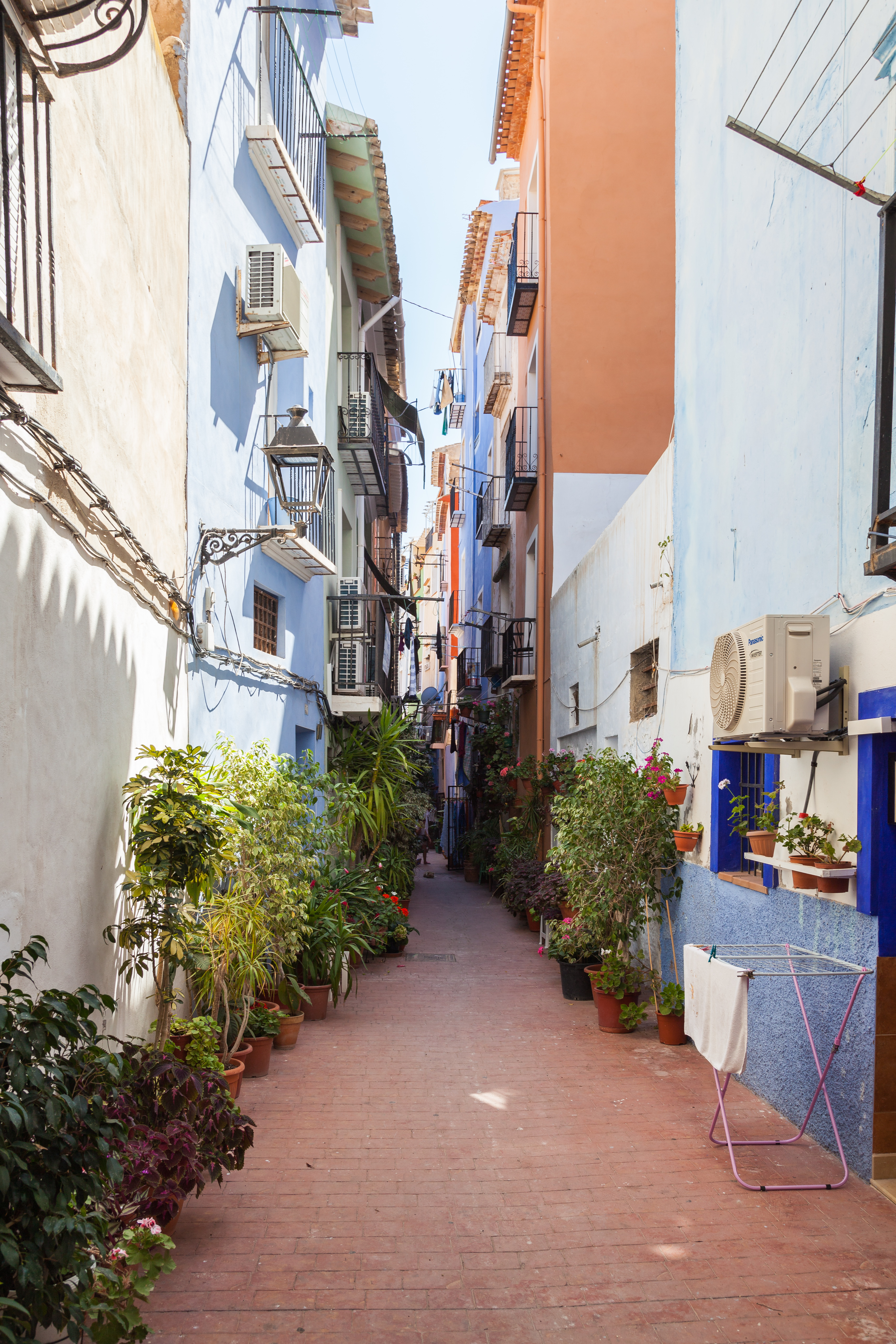 Street in Villajoyosa, Spain